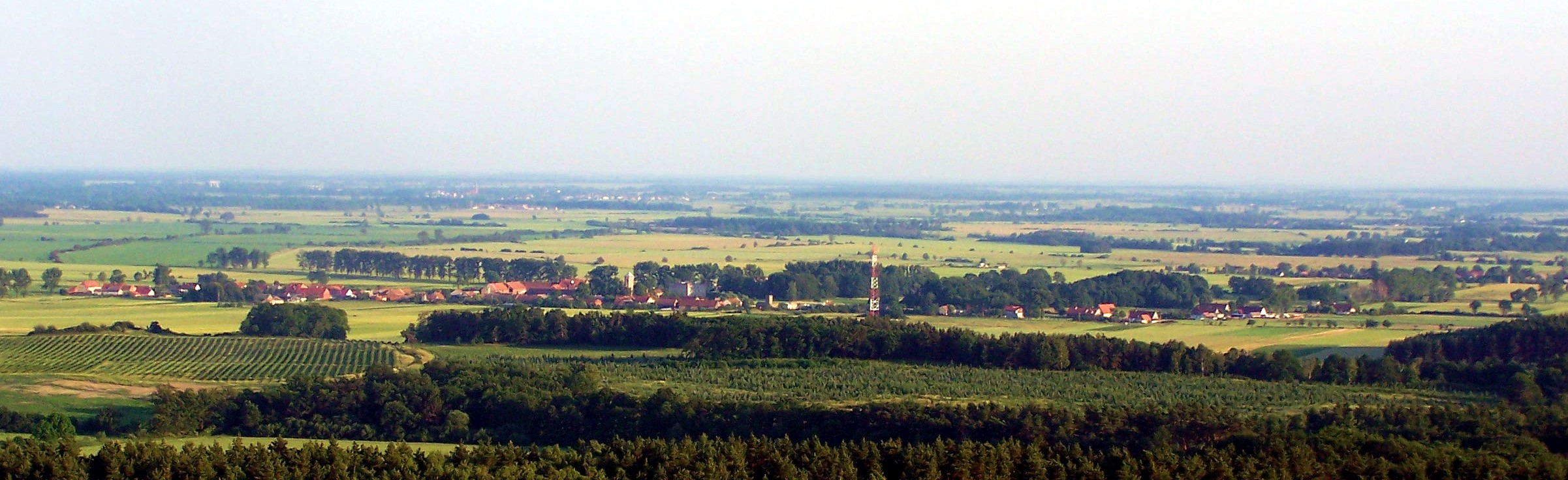 Panoramic view over Górzyn.